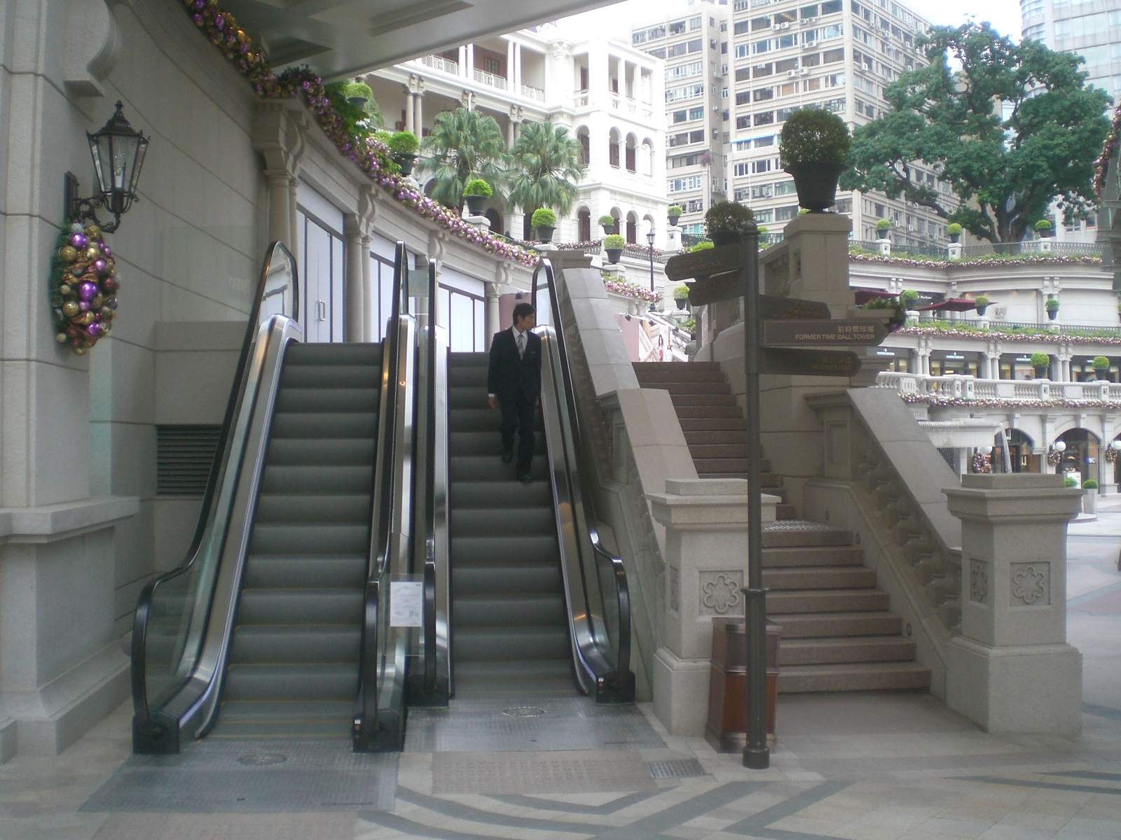 尖沙咀zh:1881 Heritage